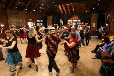 Square Dancing in Appalachia